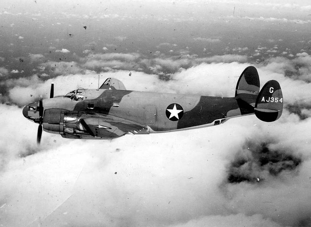 A USAAF Lockheed Model 37 (a former RAF Ventura Mk.II, RAF serial AJ 354), in flight on 4 September 1942. 264 Ventura IIs were retained by the USAAF.